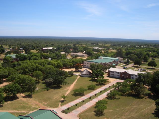 An aerial photograph of Solusi University